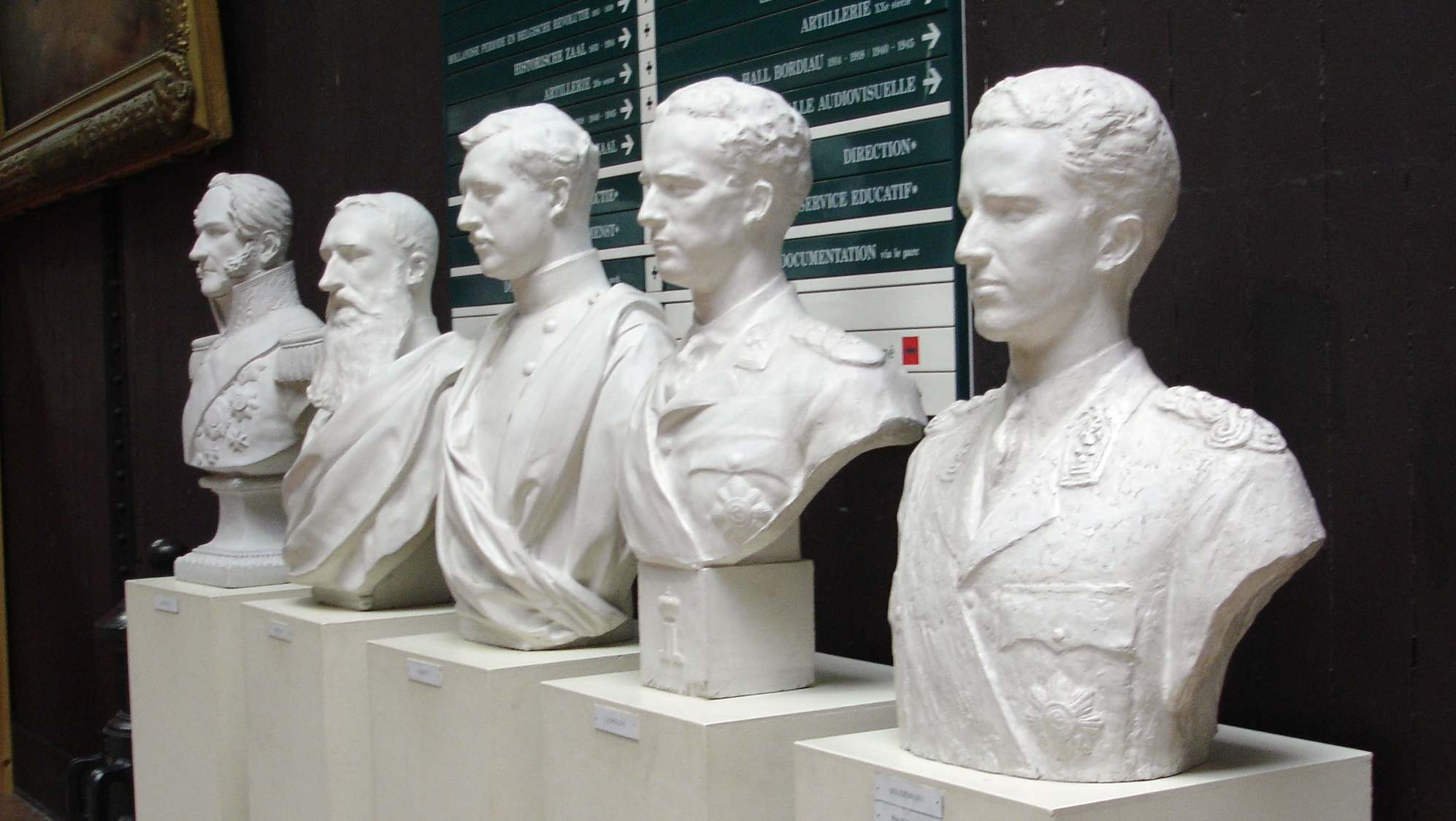 Picture of the Belgian Kings; Collection of the Royal Museum of the Armed Forces and Military History in Brussels. From left to right: Leopold I, Leopold II, Albert I, Leopold III and Baudouin I.